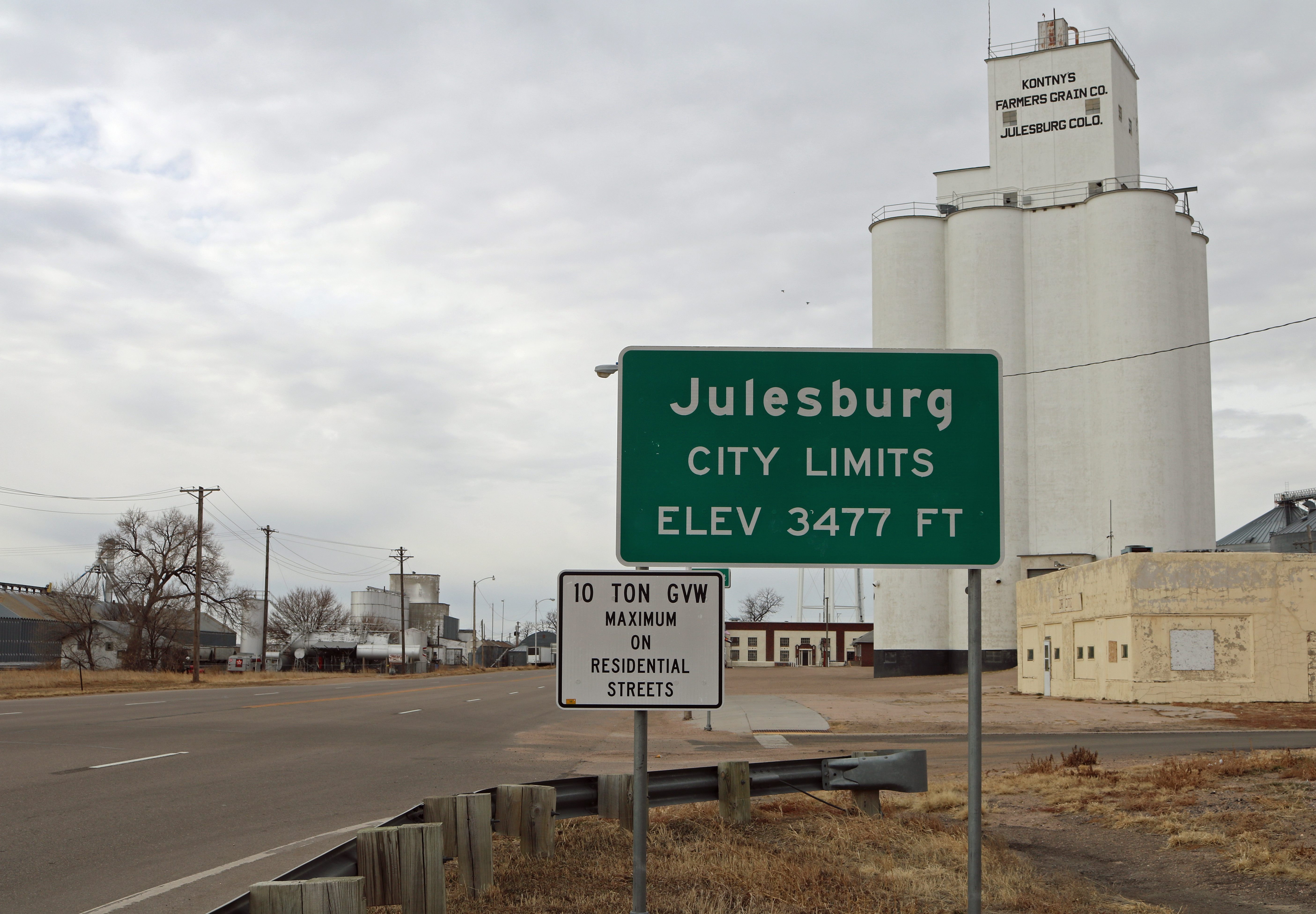 Julesburg, Colorado. The view is on the northeast side of town, looking towards the southwest on East 1st Street (U.S. Route 138).